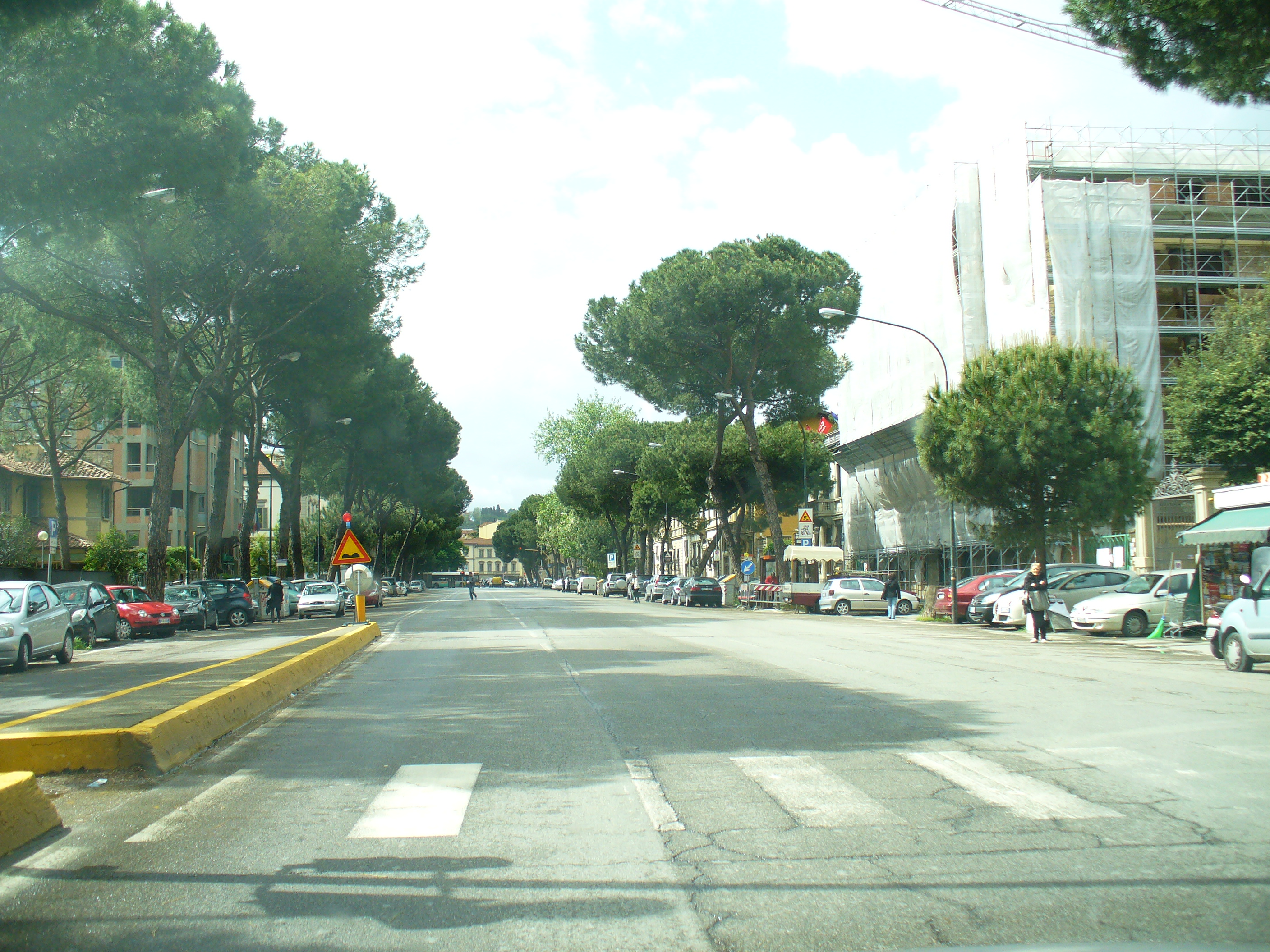 Viale Belfiore